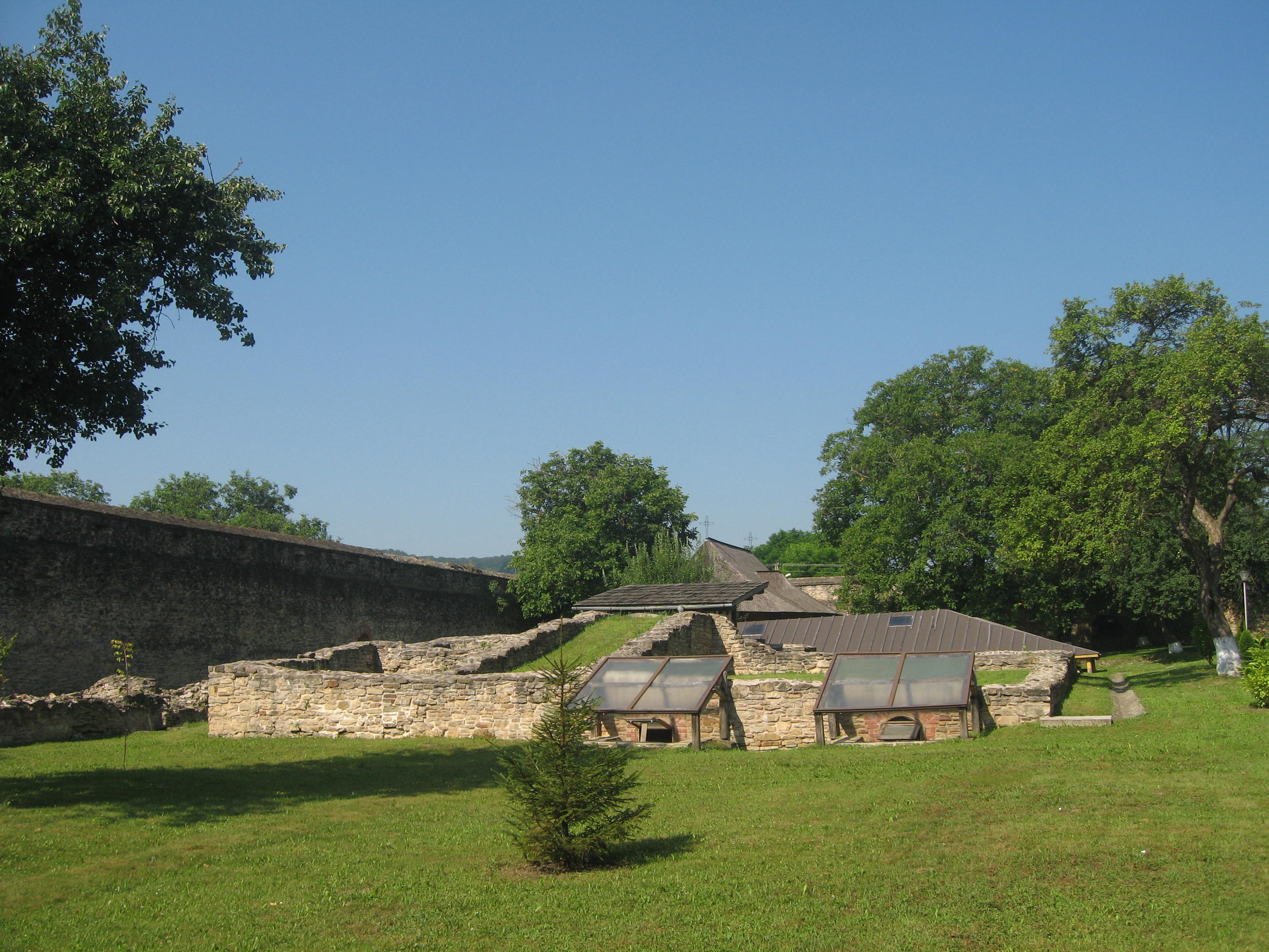 Probota Monastery 03